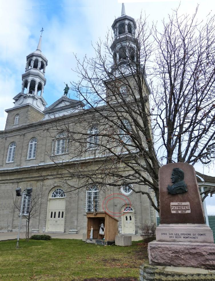 Church in Saint-Eustache, where an important battle of the 1837 Lower Canada rebellion took place. Note the damage on the facade.